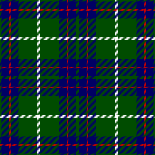 MacIntyre tartan, as published in the Vestiarium Scoticum. Modern thread count: G10 B26 R6 B26 G64 W10.